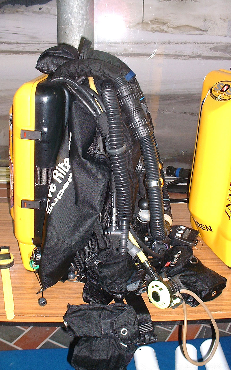 «Inspiration» rebreather, side view.